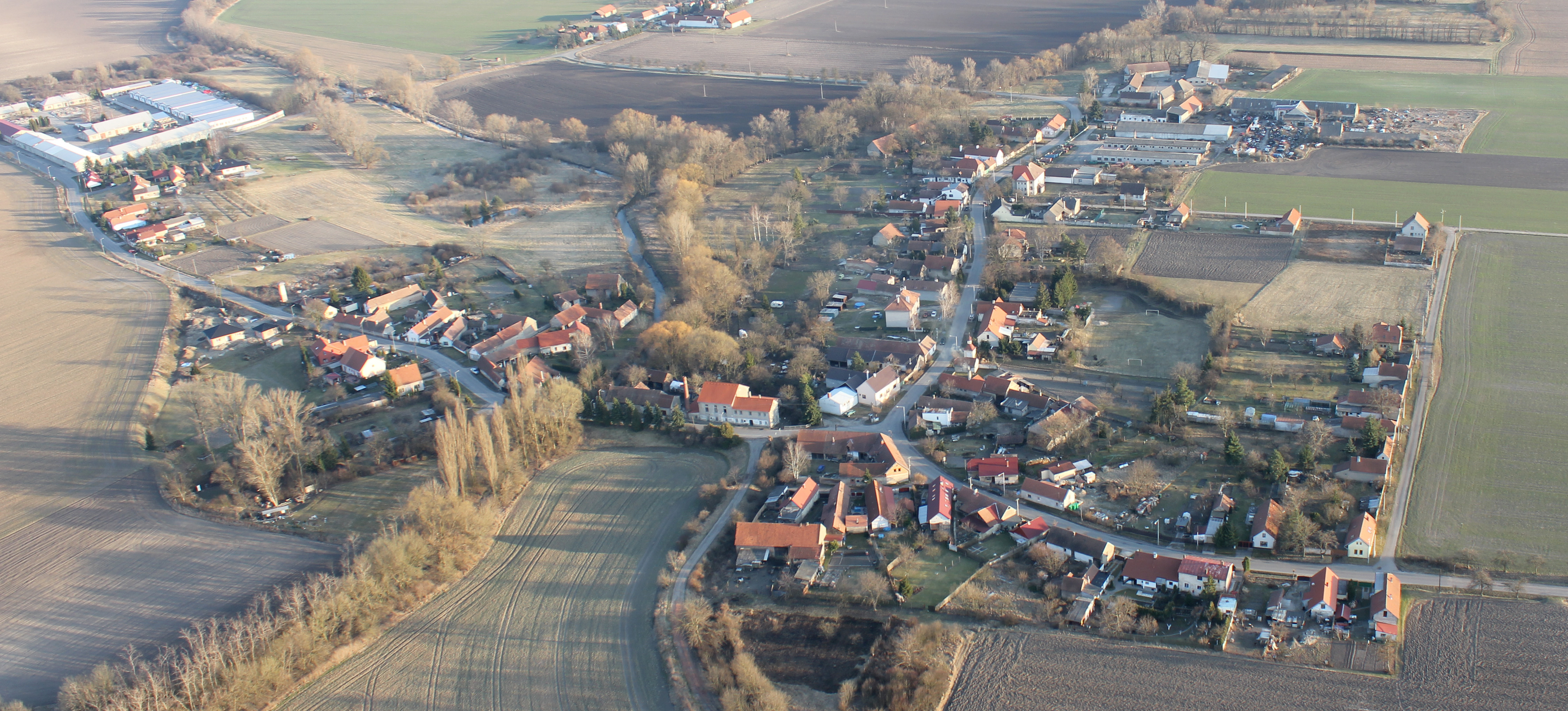 aerial photo